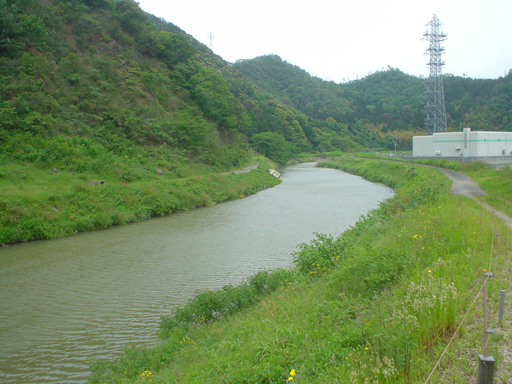 Toba River in Fukui, Japan.